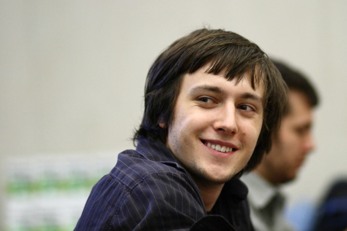 Portrait of Ilya Zhitomirskiy from Wiki-Conference New York 2009 at the NYU law school